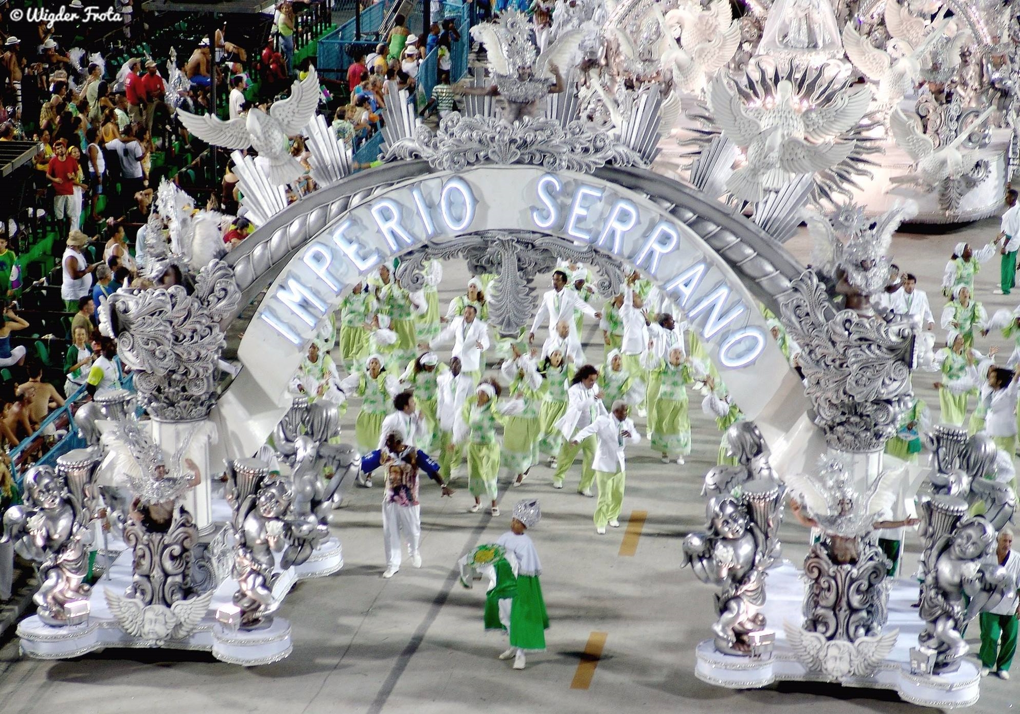 From the Series "Samba Schools, Rio de Janeiro" Carnival 2006 Photo: Wigder Frota